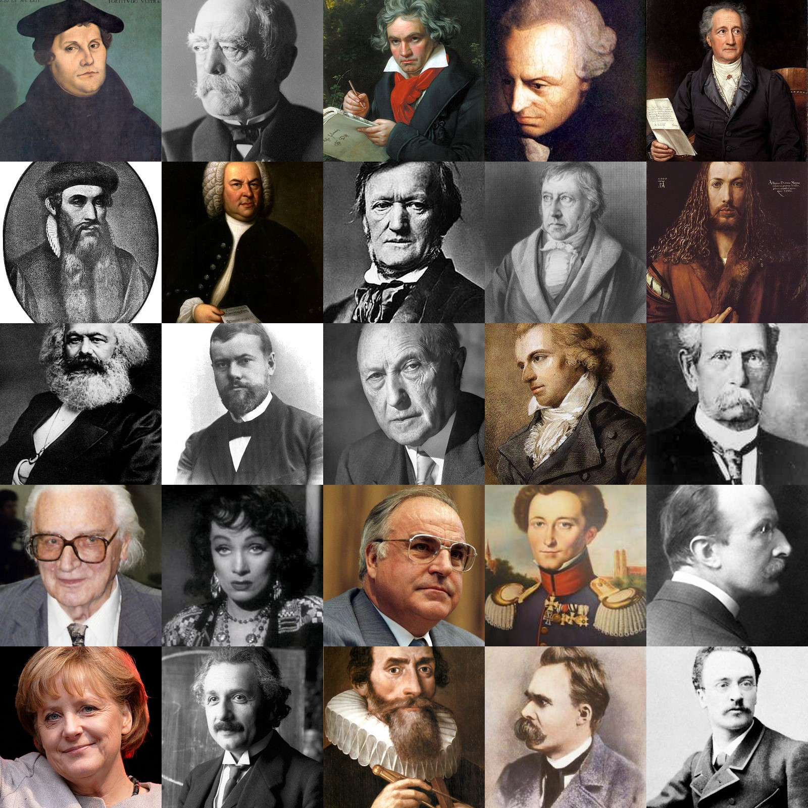 Collage of 25 Famous Germans